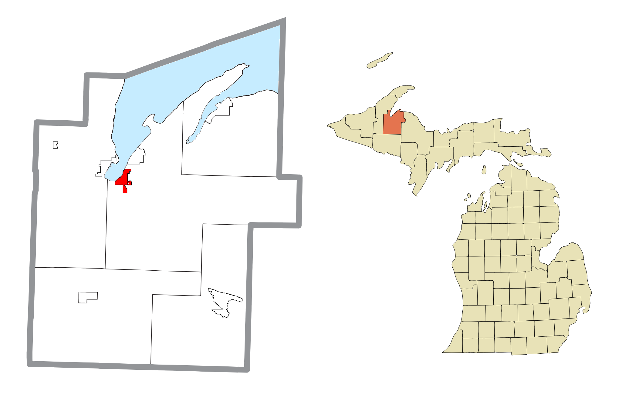 L'Anse, MI